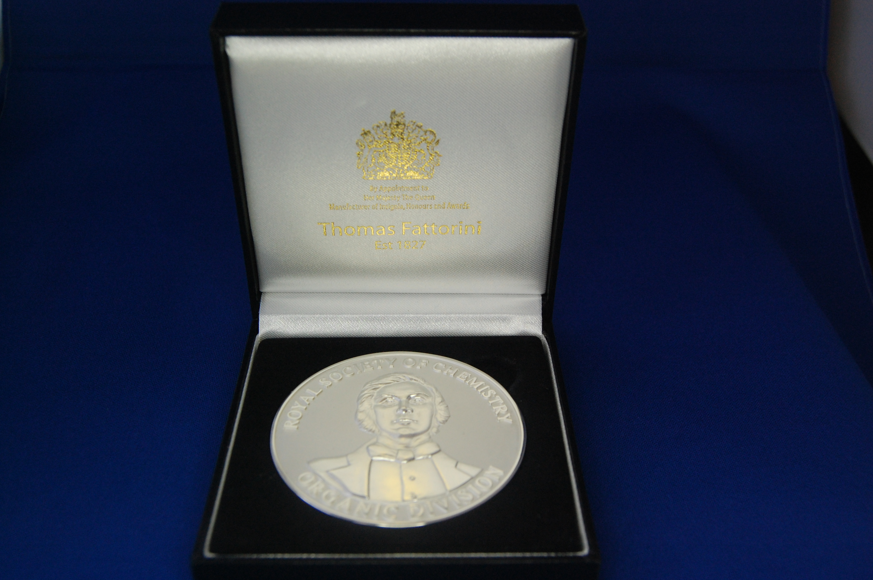 The Royal Society of Chemistry's Hickinbottom Award - 2014 - in box, obverse showing